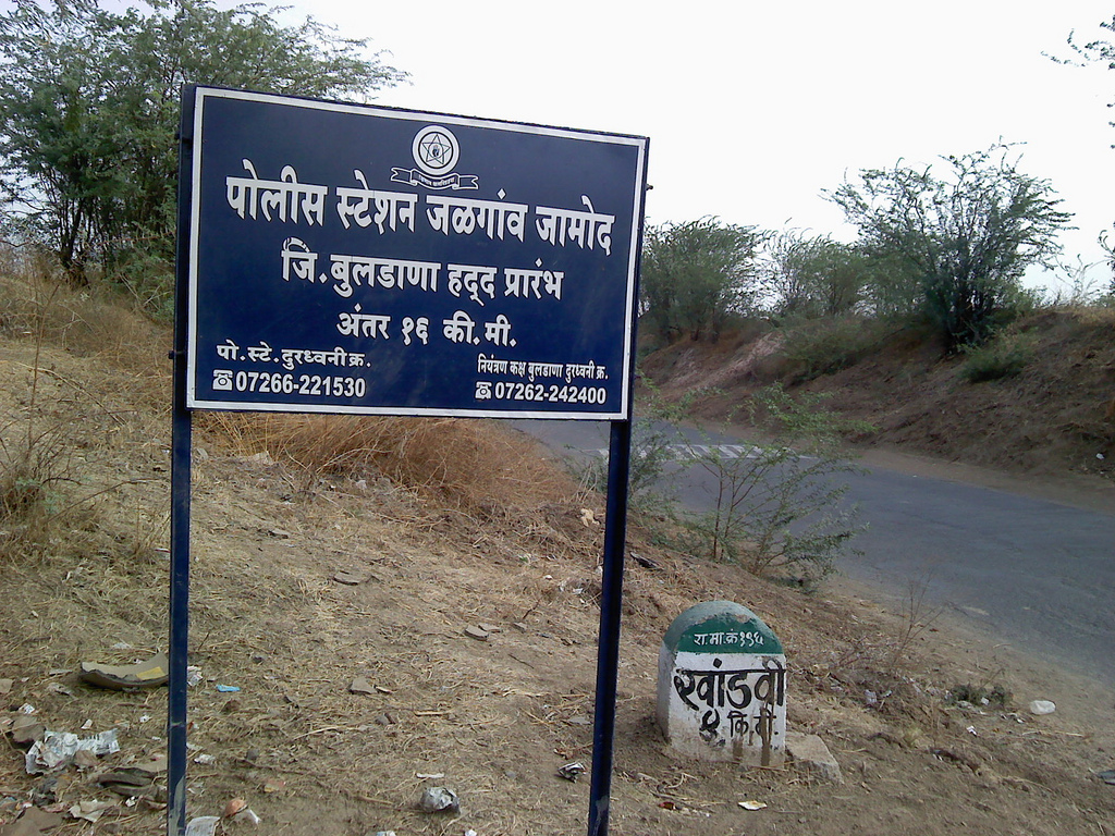 State Highway 196 (Maharashtra) as it enters in Jalgaon Jamod tehsil at Manegaon. The milestone reads Khandvi is 4 km ahead. The signpost reads the boundry of Jalgaon Jamod police station starts here.